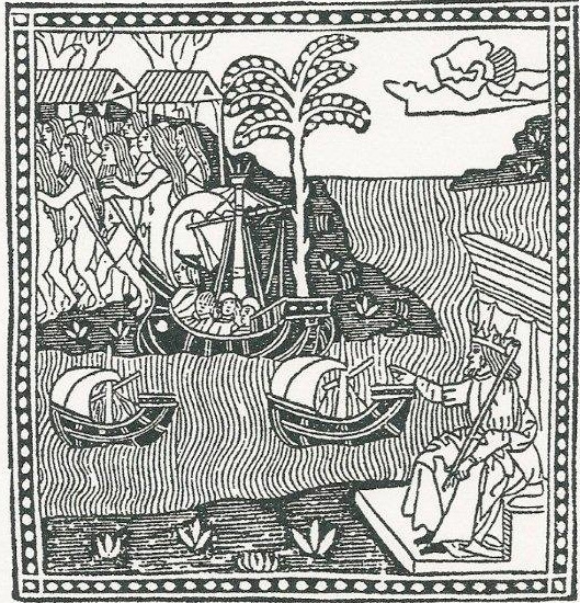 Woodcut probably depicting Amerigo Vespucci's first voyage (1497-98) to the New World, from first known published edition of Vespucci's 1504 Letter to Soderini, entitled "Lettera di Amerigo Vespucci delle isole nuovament trovate in quattro suoi viaggi", published by Pietro Pacini in Florence c.1505. Photographic facsimile reproduced from 1893 First Four Voyages of Amerigo Vespucci, London: B. Quaritch online